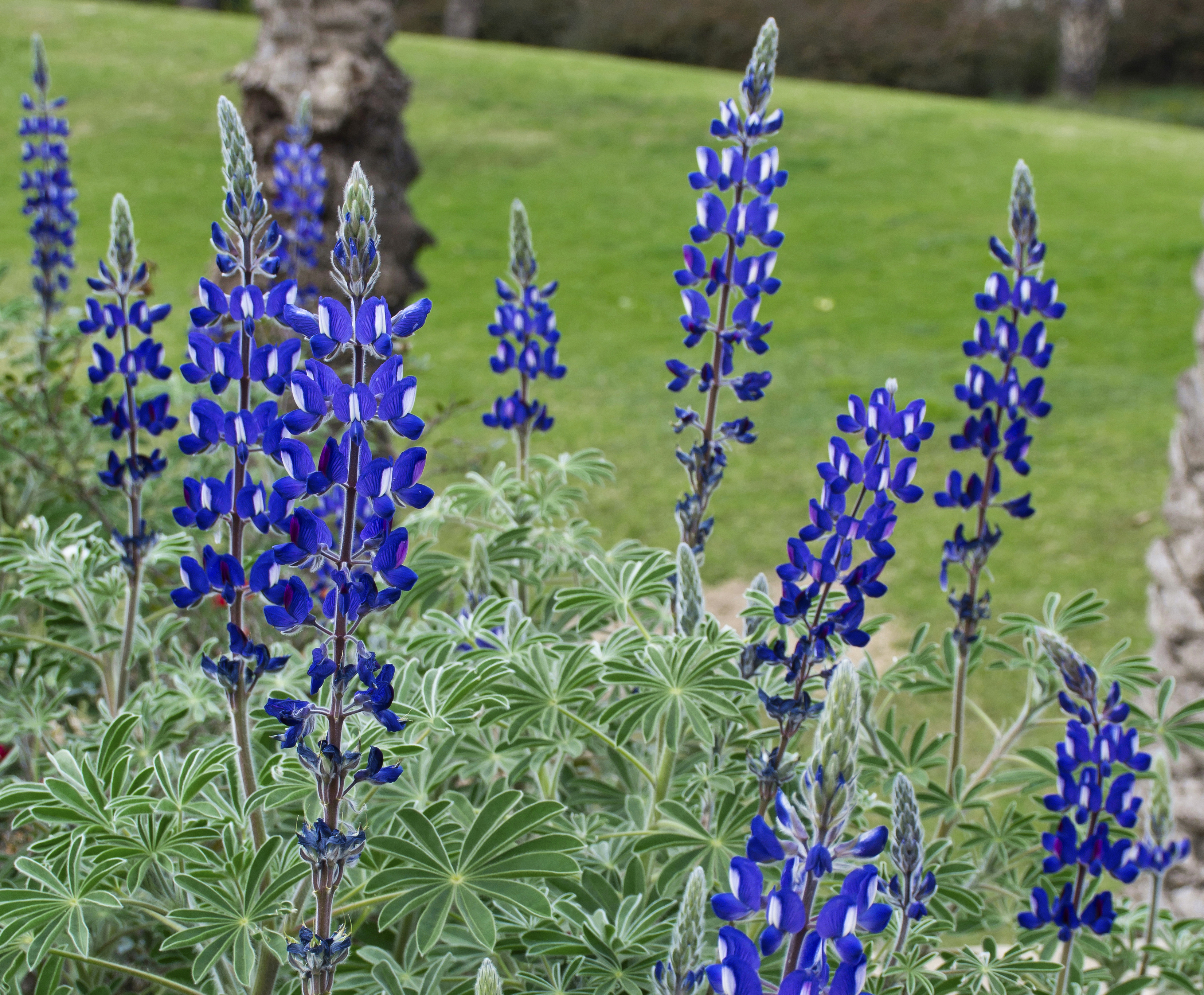 Lupinus pilosus, Tel Aviv University, Israel